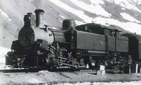 A Kitson-Meyer locomotive used in the Transandine Railways (Chilie-Argentina), build 1910.